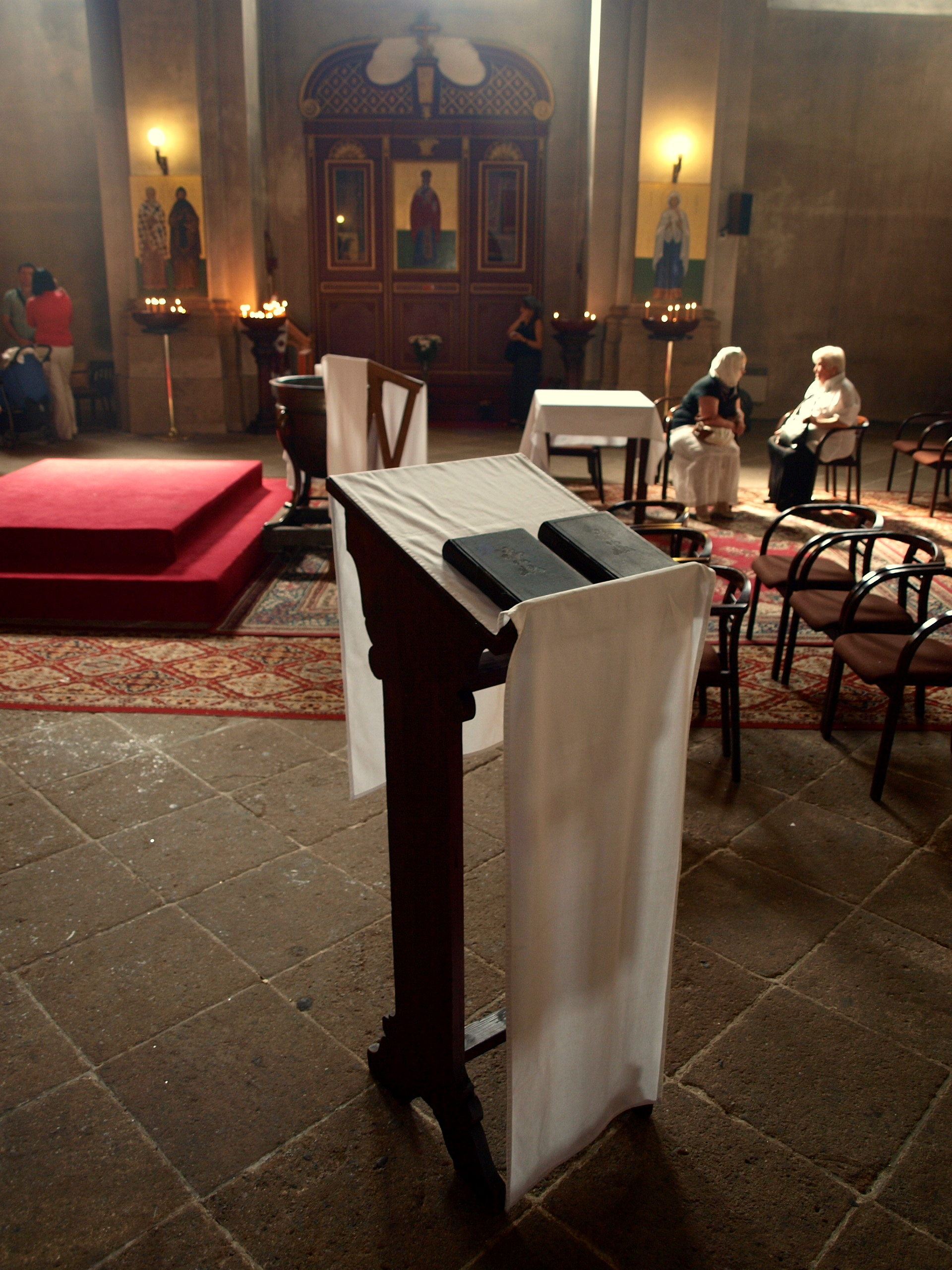 Analogion in the Orthodox Church of Ss. Cyril and Methodius in Prague, Czechia